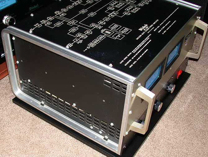 Side view of McIntosh MC-2300 solid state power amplifier